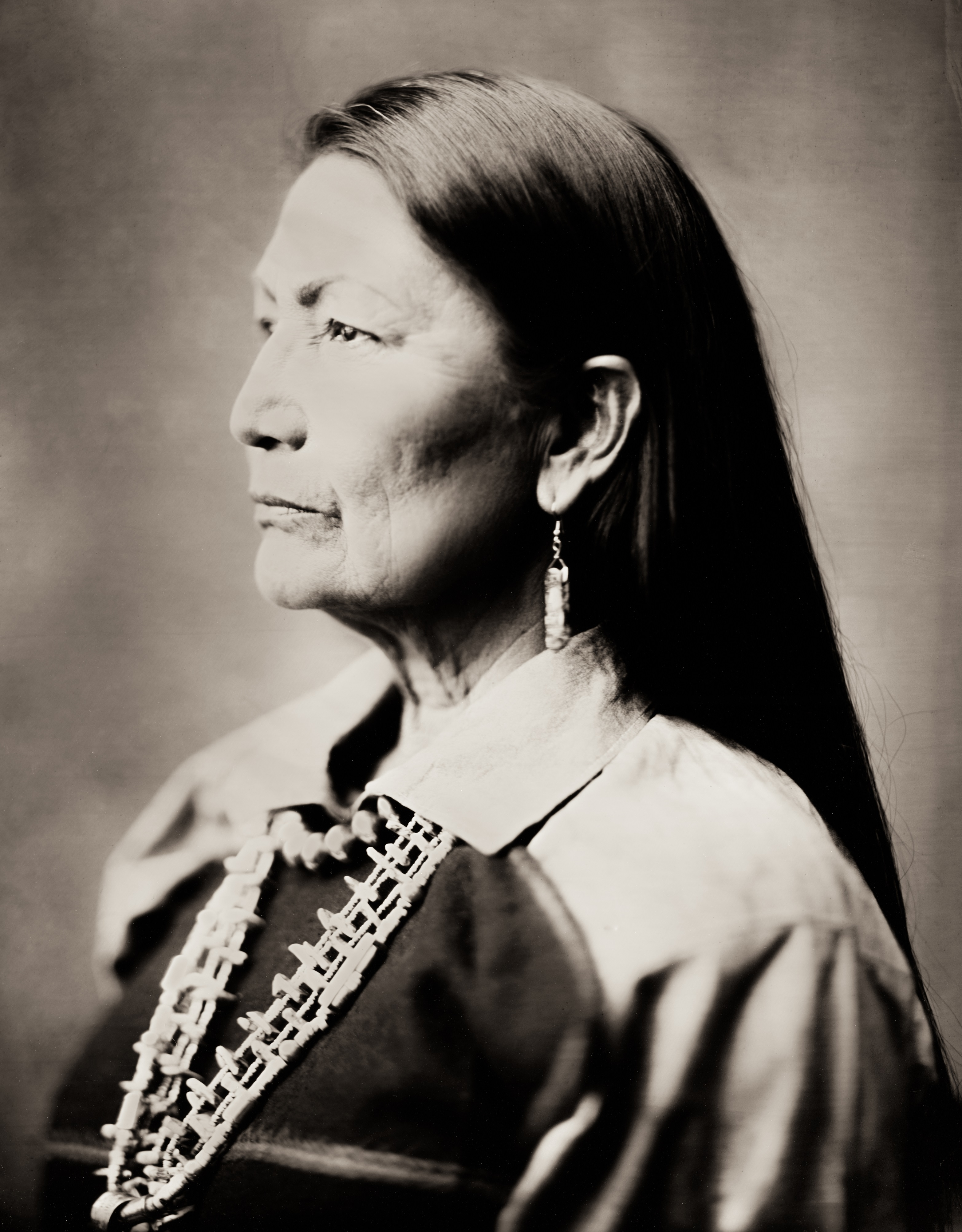 Congresswoman Debra Haaland, “Crushed Turquoise”, Laguna Pueblo, New Mexico’s 1st District, captured in the historic wet plate collodion process of pure silver on glass for “Northern Plains Native Americans: A Modern Wet Plate Perspective”. This plate will be indefinitely archived at the North Dakota Historical Society here in Bismarck at the Heritage Center. This image of Congresswoman Haaland was taken by Shane Balkowitsch on June 23rd, 2019 in his natural light studio in Bismarck, North Dakota. The original plate now resides in the North Dakota Historical Society archive at the Heritage Center in Bismarck, North Dakota. 8x10” black glass ambrotype, Carl Zeiss Tessar 300mm lens, f4.5, 9 seconds of exposure, natural light through Norther facing windows and skylight.